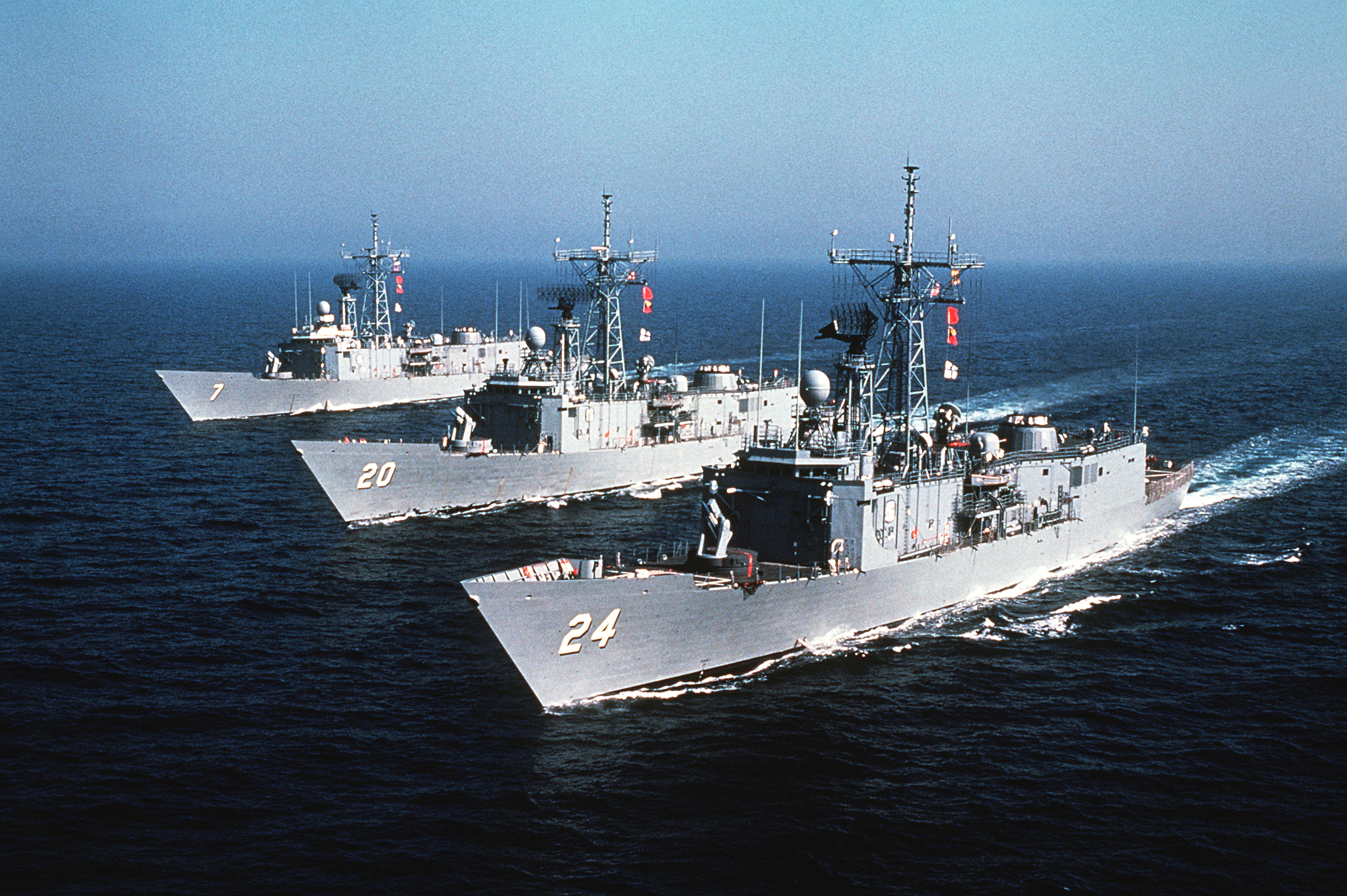 The U.S. Navy guided missile frigates USS Oliver Hazard Perry (FFG-7), USS Antrim (FFG-20) and USS Jack Williams (FFG-24) underway.